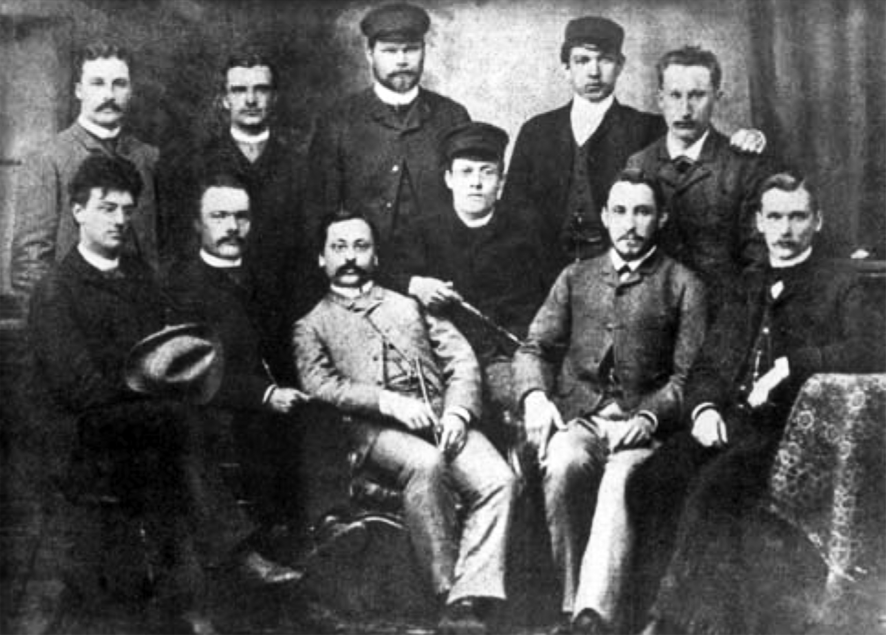 Members of Latvian stundent society 'Pīpkalonija' in Dorpat University